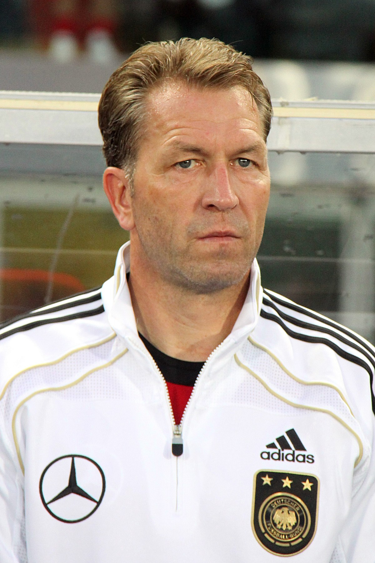 Andreas Köpke, goalkeeping coach of the german national football team